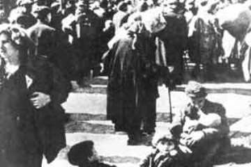 Inhabitants of Wola district driven out from their houses during Warsaw Uprising in August 1944. Photo taken by German photographer Alfred Mensebach at Wolska street. Some sources describe the image as polish civilians awaiting "selection" in the German transit camp (Dulag 121) in Pruszków.